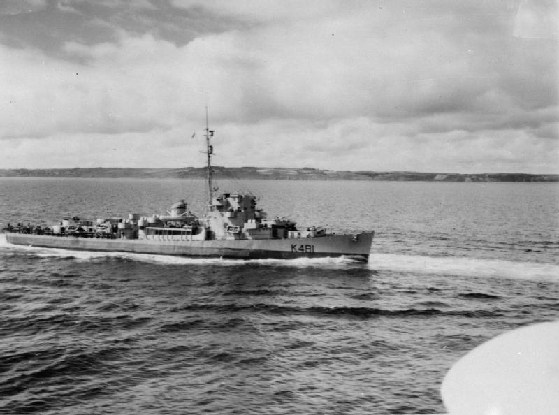 Photograph of Captain class frigate HMS Gore.